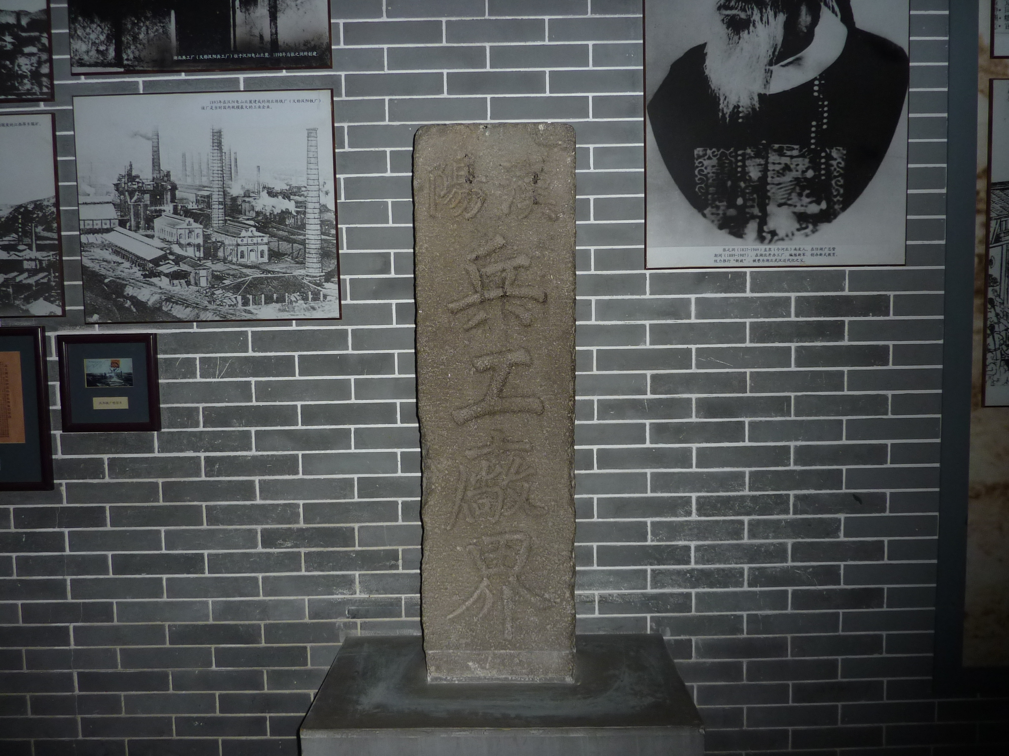 A boundary marker from the Hanyang Arsenal. Presently exhibited in the Xinghai Revolution Museum (Wuchang Uprising Memorial) in Wuchang.